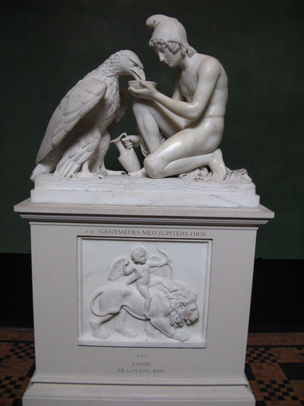 Ganymede, by Bertel Thorvaldsen 1817, in Thorvaldsens Museum, Copenhagen.